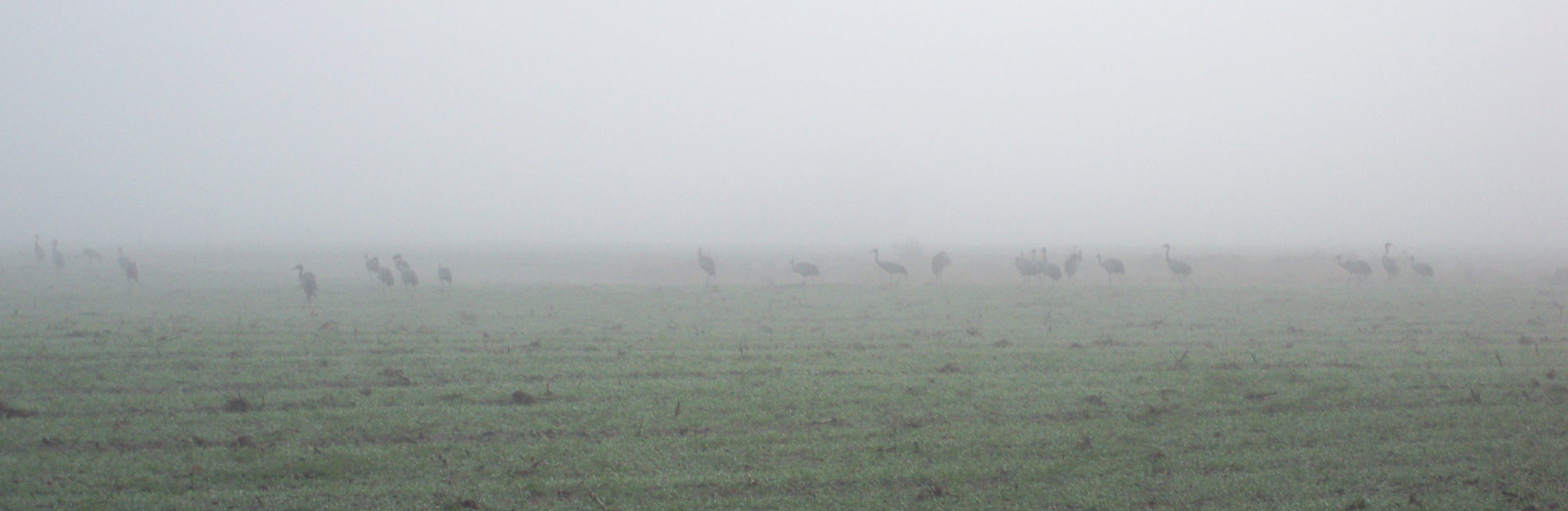 Cranes in the wetland Drömling near Kahnstieg, Gardelegen, Saxony-Anhalt, in typical autumn mist